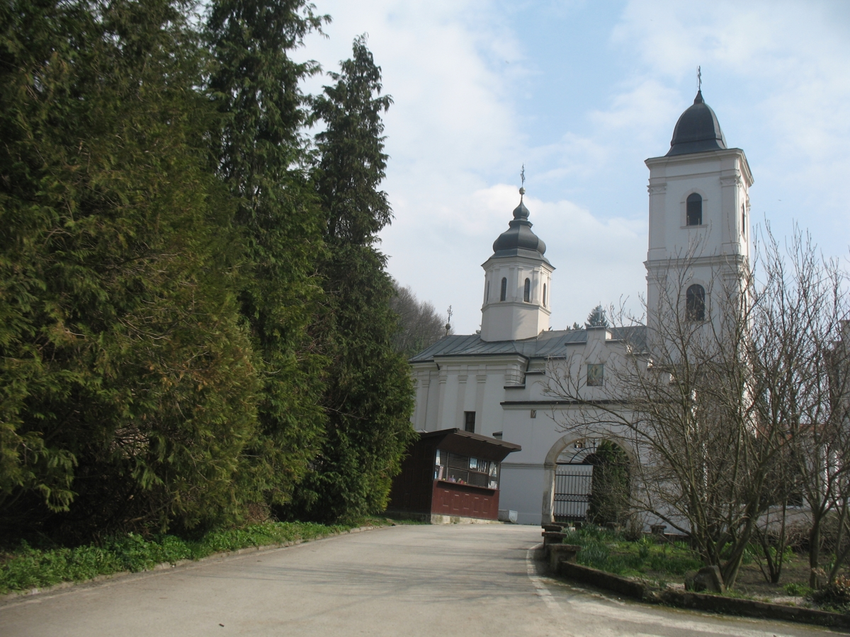 Beočin monastery on slopes of Fruška Gora in Beočin municipality,Serbia.